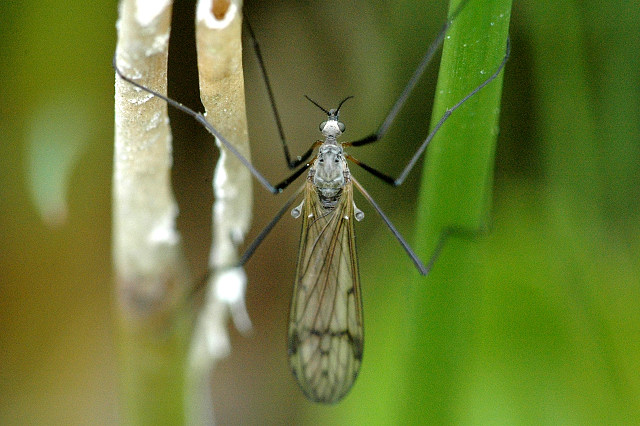 Dactylolabis sexmaculata from Commanster, Belgian High Ardennes .